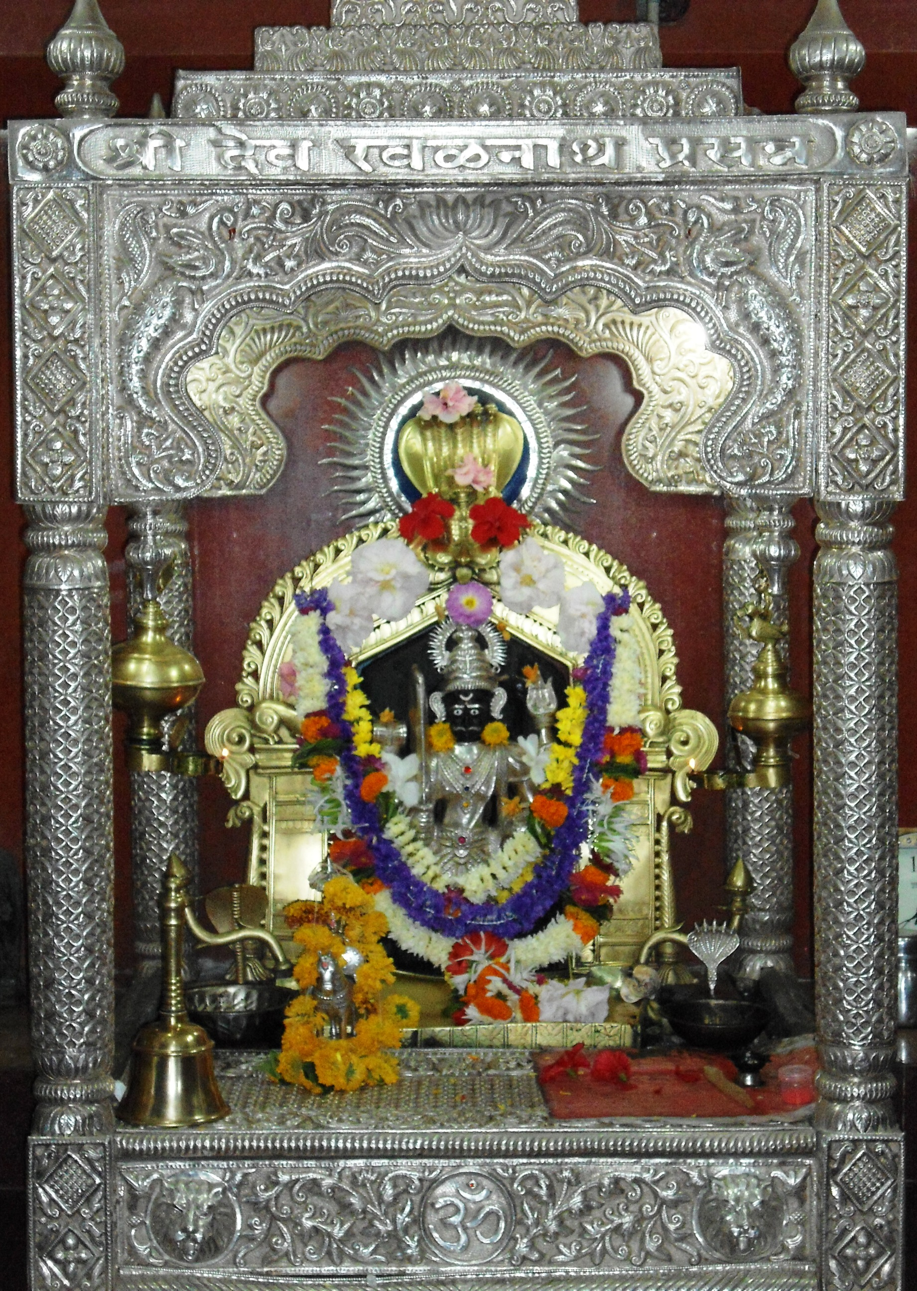 Shree Dev Ravalnath of Chandgad